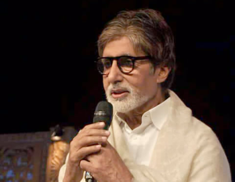 Amitabh Bachchan at Sachin Pilgaonkar's 50 years in cinema celebrations